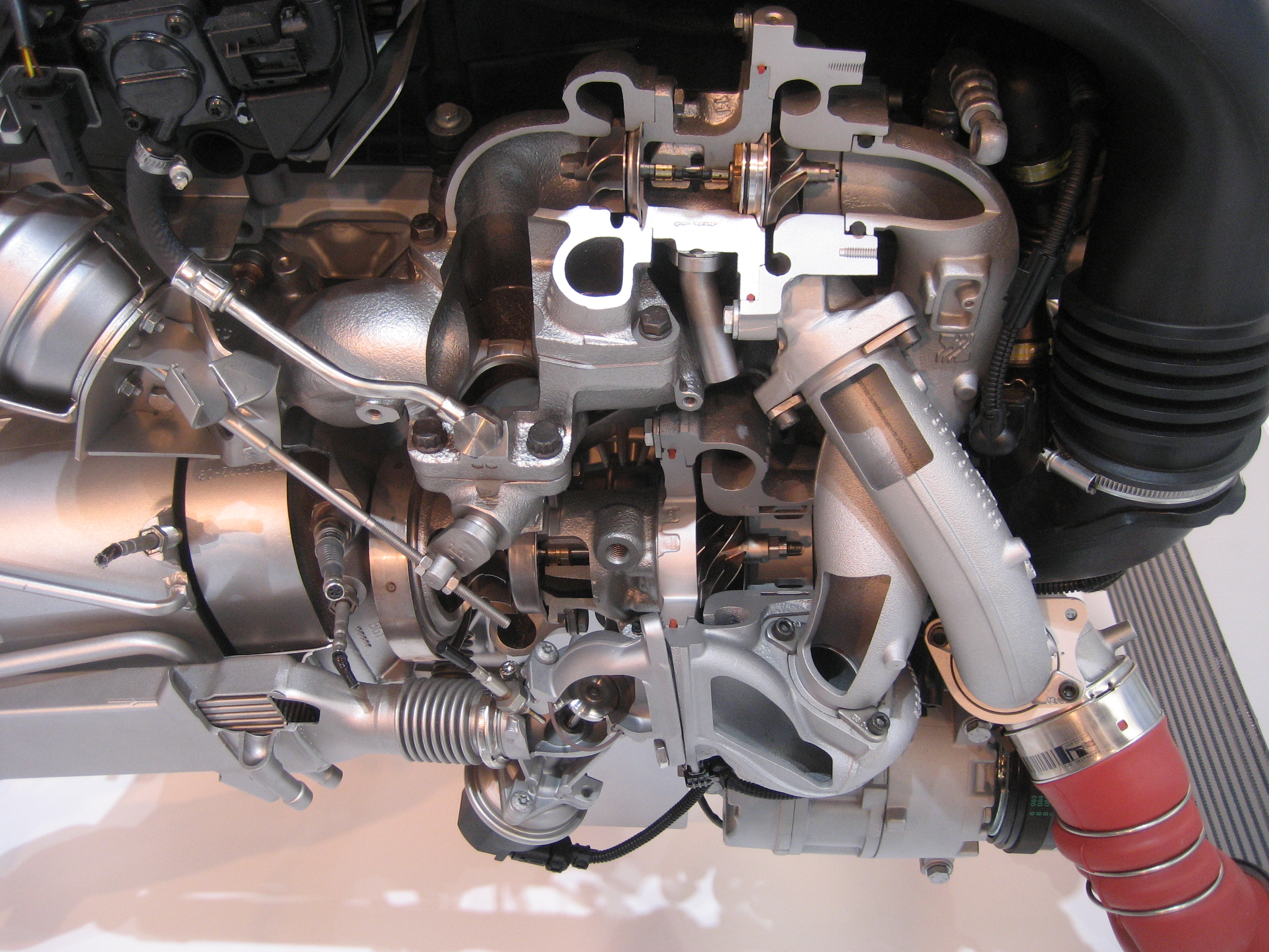 Turbo setup on 2011 BMW 3 Series